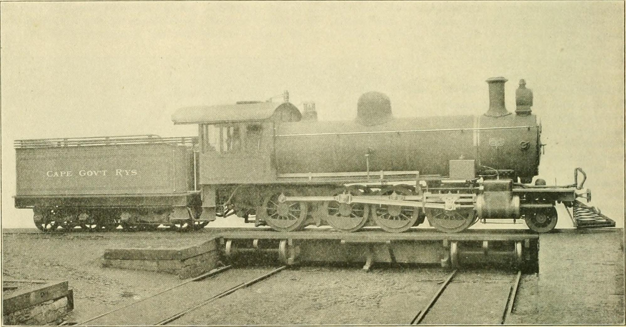 Title: Railway and locomotive engineering : a practical journal of railway motive power and rolling stock Year: 1901 (1900s) Authors: Subjects: Railroads Locomotives Publisher: New York : A. Sinclair Co Text Appearing Before Image: iinches. Firebrick supported on angle irons. Heating surface—Tubes, 1,280.7 squarefeet; firebox, 126.6 square feet; total,1.407.3 square feet. Grate surface—26.03 square feet. Grate, style—Rocking, with drop plates. Ash-pan, style—Hopper. Exhaust pipes—Single. Exhaust nozzles—4%, aVz, 454 inchesdiameter. Smokestack, inside diameter—16 and 14inches. Smokestack, top above rail—12 feet 10inches. Boiler supplied by two Gresham & Cra-vens No. 8 injectors. Cape pattern.Tender: Weight, empty—36,020 1 ounds. Wheels, number—Eight. Wheel, diameter—zyA inches. Text Appearing After Image: SCHENECTADY CONSOLIDATION FOR CAPE GOVEKNMENT RAILWAYS. Kind of piston rod packing—Jeromemetallic. Size of steam ports—16 x 1^4 inches. Size of exhaust ports—16 x 2j/^ inches. Size of bridges—i inch. Kind of slide valves—Richardson bal-anced. Greatest travel of slide valves—5 inches. Outside lap of slide valves—i inch. Inside lap of slide valves—Line and line. Lead of valves in full gear—Line andline. Kind of valve stem packing—Jeromemetallic. Diameter of driving wheels outside oftire—-48 inches. Material of driving wheel centers—Caststeel. Tire held by—Shrinkage and set-screws. Driving-box material—Cast steel. Diameter and length of driving journals Thickness of plates in barrel and outsideof firebox—54, % and Yz inch. Horizontal seams—Butt joint, sextupleriveted, with welt strips inside and outside. Circumferential seams—Double riveted. Firebox, length—loi inches. Firebox, width—28/$ inches. Firebox, depth—65J4 inches F., 5354inches B. Firebox